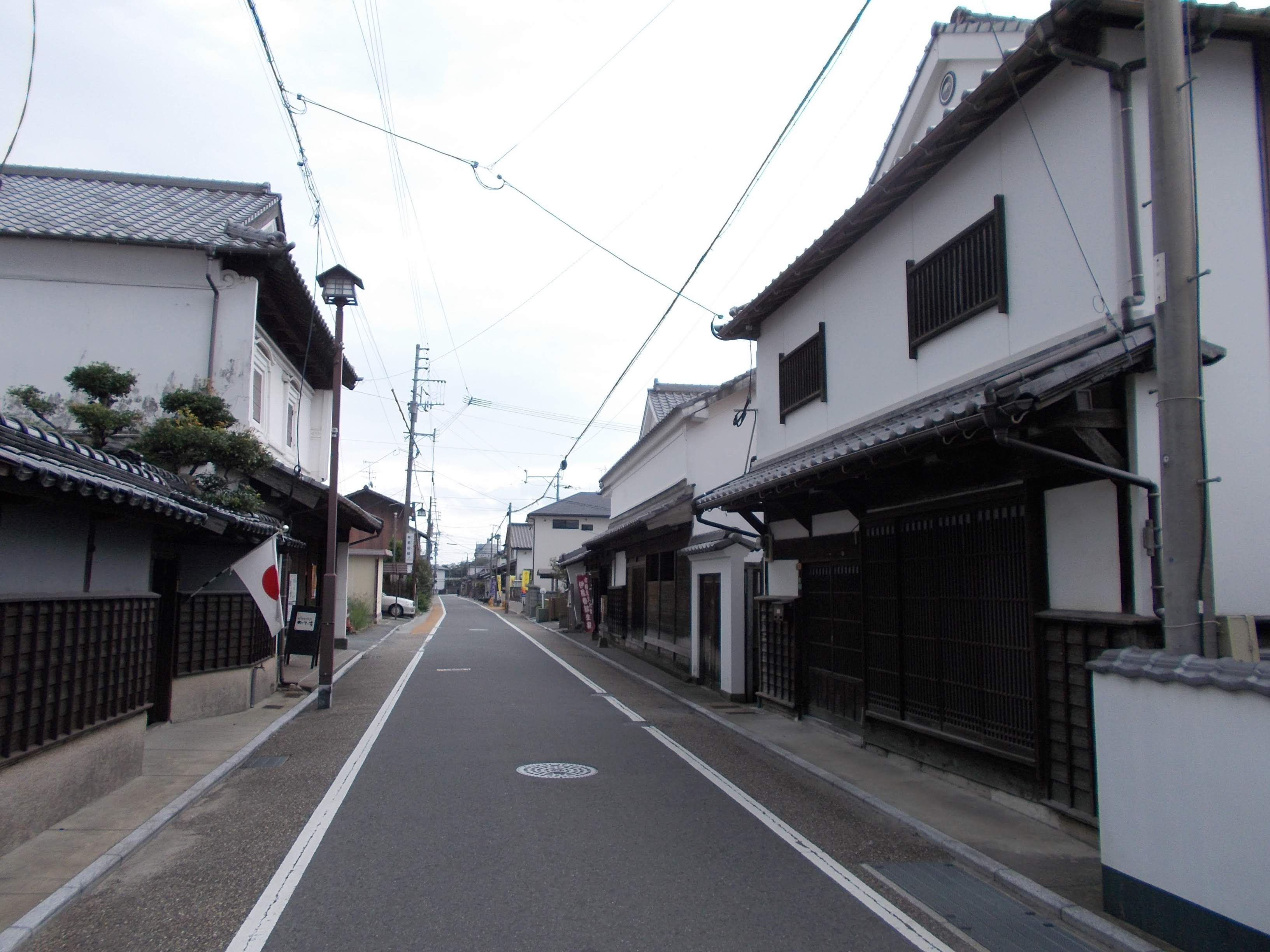 A street of Koyanose-juku on the Nagasaki Kaido in Yahatanishi-ku, Kitakyushu, Japan.